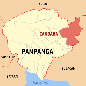 Map of Pampanga showing the location of Candaba